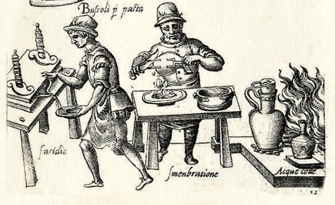 Crop from Opera di M. Bartolomeo Scappi, cuoco secreto di Papa Pio V page 12